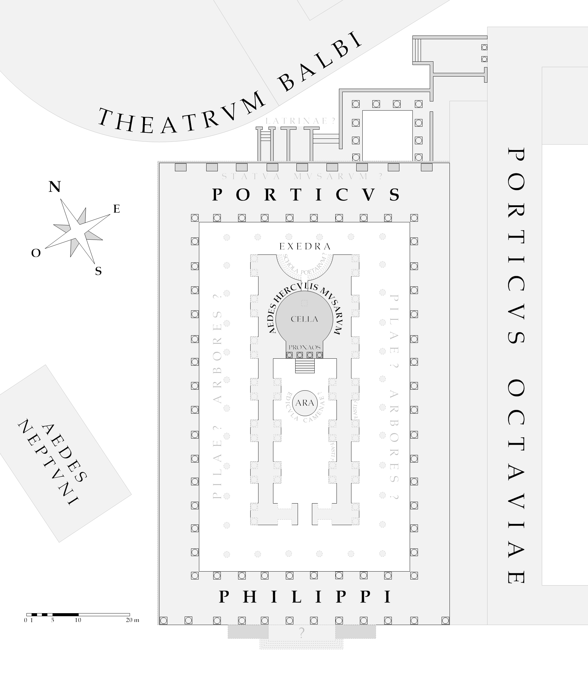 Map of the Porticus Philippi D'après : - Rodolfo Lanciani, Forma Urbis Romae, Roma, 1893-1901 - G. Carettoni, A. M. Colini, L. Cozza et G. Gatti, La pianta marmorea di Roma antica, Rome, 1960 - Pierre Gros, Hermodoros et Vitruve, MEFRA, 1973 - Andrea Carandini, Atlante di Roma antica, 2012